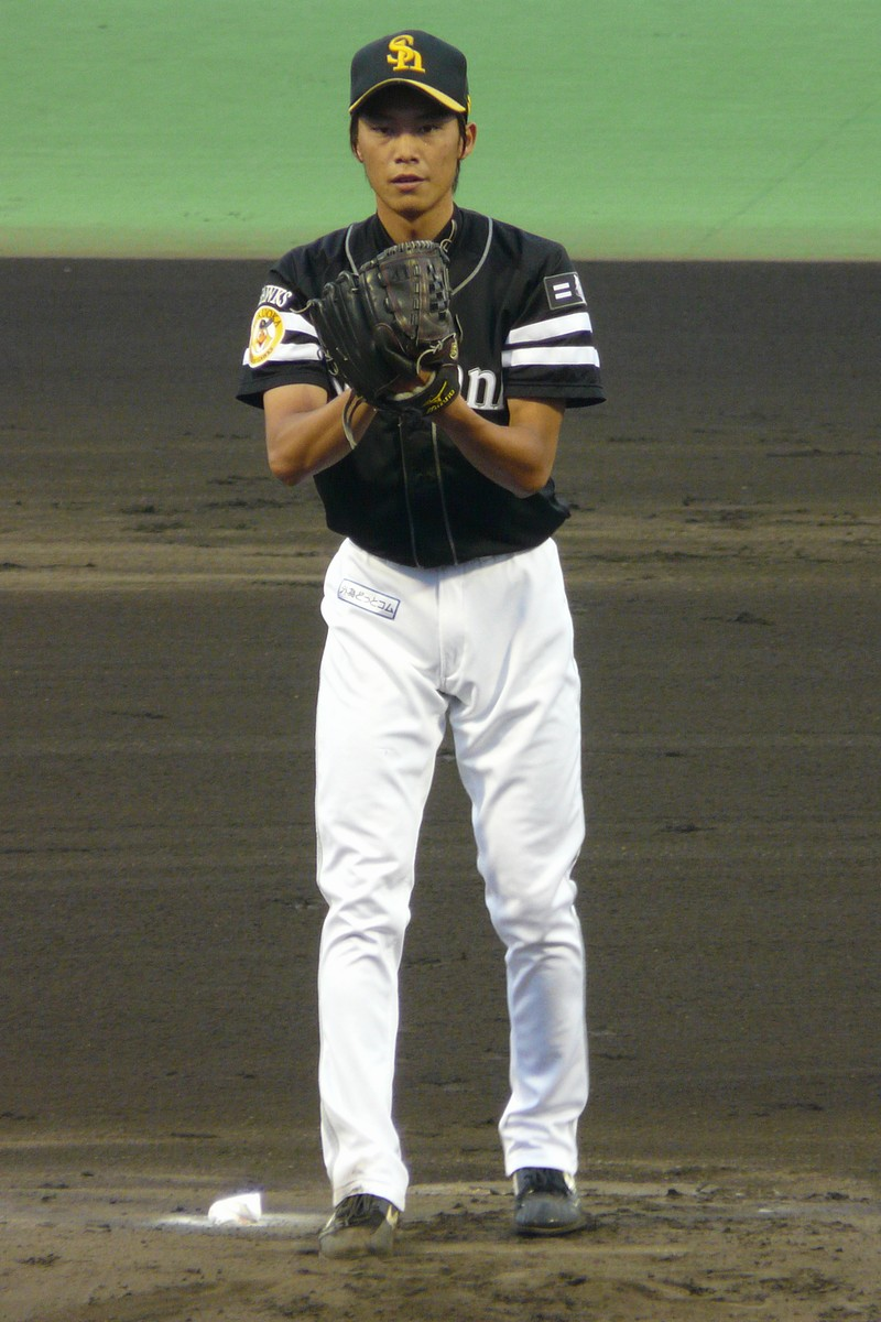 Sho Iwasaki, pitcher of the Fukuoka SoftBank Hawks, at Ajisai Stadium Kita-kobe.